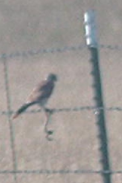 Female American Kestrel (Falco sparverius) with unidentified prey snake. Taken at Las Vegas National Wildlife Refuge, New Mexico, Sept. 24, 2005, by Jerry Friedman. Yes, it's blurry.